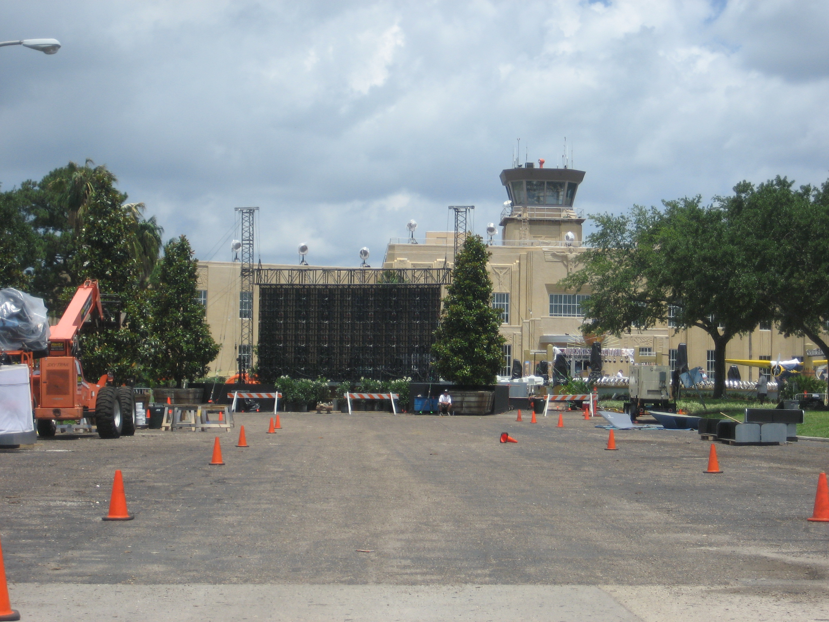 New Orleans Lakefront Airport. I wanted to get photos of the old Art Deco terminal since it had been recently renovated, but access was blocked off. I later found out they were filming a scene for the "Green Lantern" movie there at the time. Note signage for the fictional "Ferris Aircraft" can be seen in the distance at right.